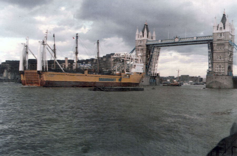 RMS Discovery aboard the floating dock Happy Mariner, about to pass under Tower Bridge on its way to Dundee